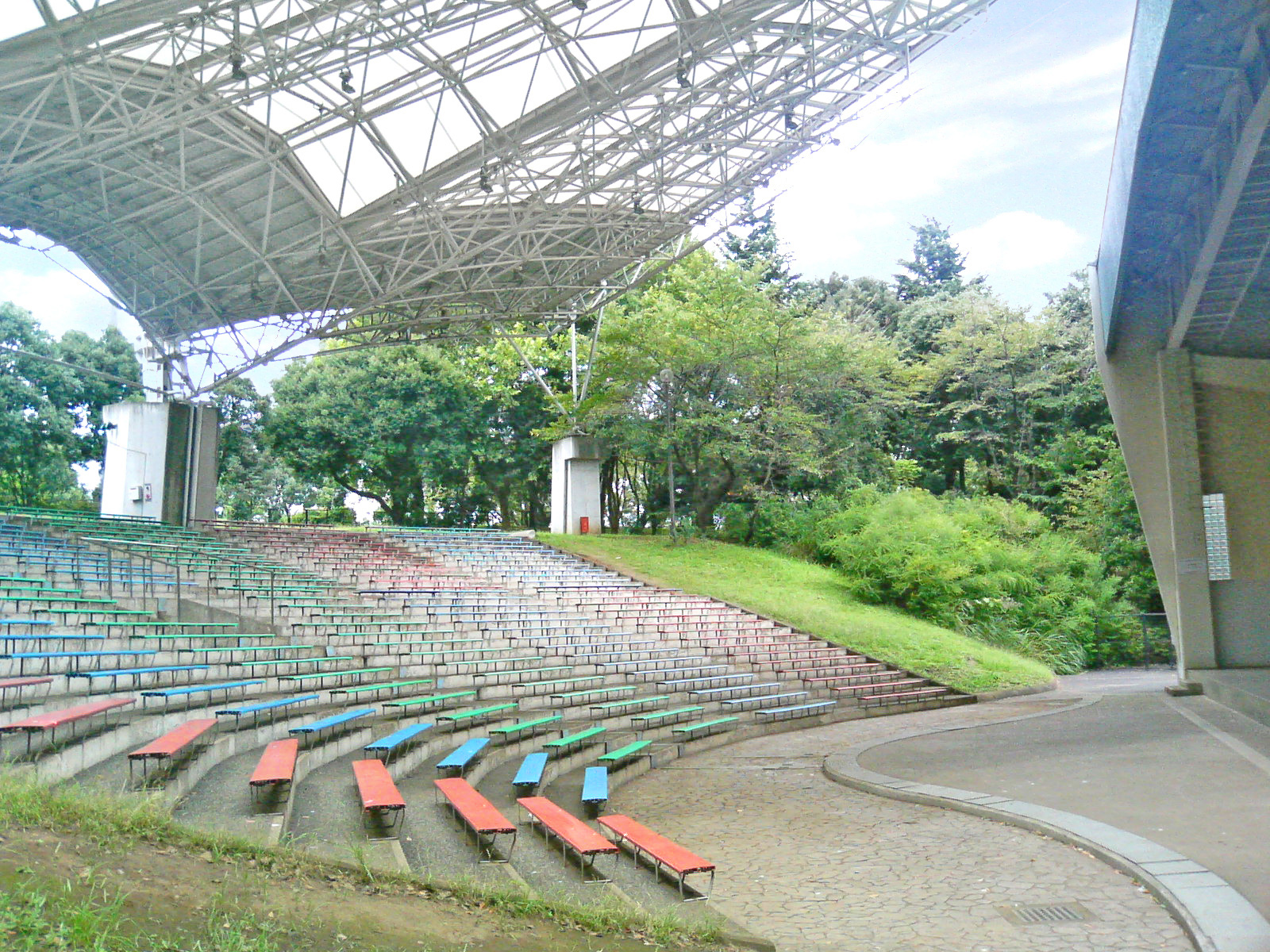 Kōkū-kōen Park Open Stage - Tokorozawa, Japan.